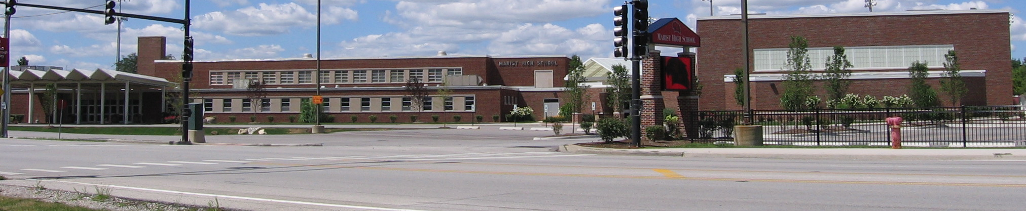 This is a photograph of the gymnasium entrance and athletic facilities of Marist High School; a private Roman Catholic secondary school in Chicago, Illinois